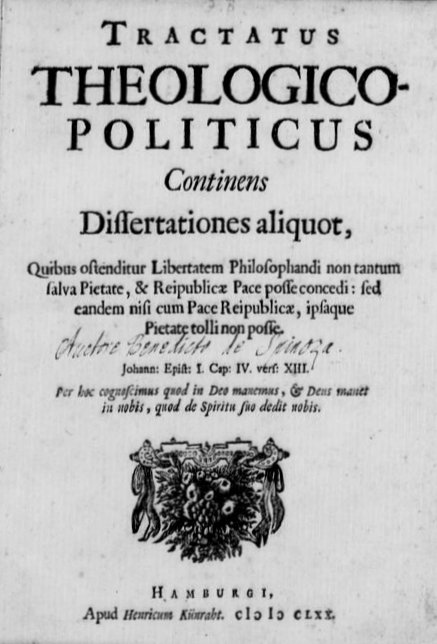 Benedictus de Spinoza:Tractatus Theologico-Politicus. Printed in the Netherlands, not in Hamburg (?) Text: Tractatus Theologico- Politicus Continens Dissertationes aliquot, Quibus ostenditur Libertatem Philosophandi non tantum salve Pietate, et Reipublicae Pace posse concedi: sed eandem nisi cum Pace Reipublicae, ipsaque Pietate tolli non posse. Johann: Epist: I. Cap: IV. vers: XIII. Per hoc cognoscimus quod in Deo manemus, & Deus manet in nobis, quod de Spiritu suo dedit nobis. Hamburgi, apud Henricum Künraht MDCLXX.